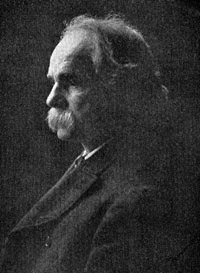 Edwin Deakin (1838-1923) Photo from